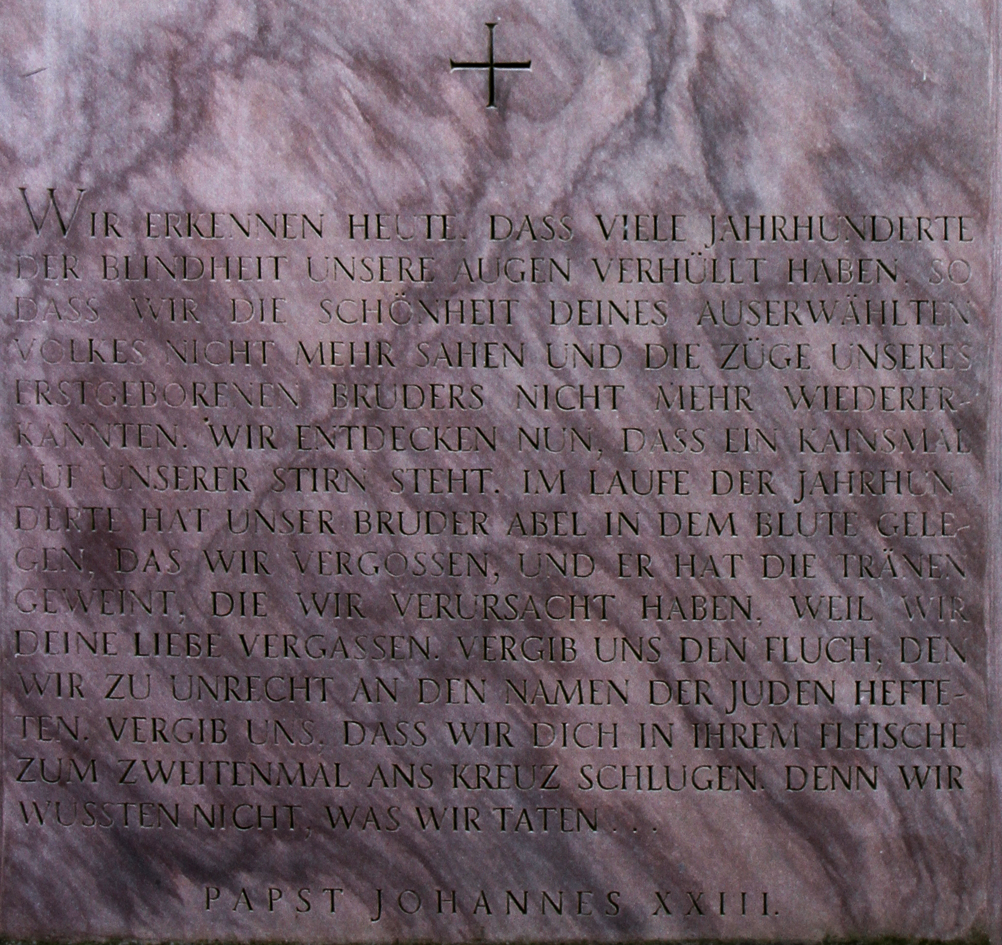 Memorial tablet with a text of pontifex Johannes XXIII (1963) at the Werner chapel in Bacharach